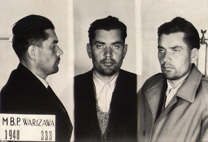 Zygmunt Szymanowski (1910-1950) Polish military, Soldier of Armia Krajowa, partisan of anti-communist underground after WW II in rank of Lieutenant